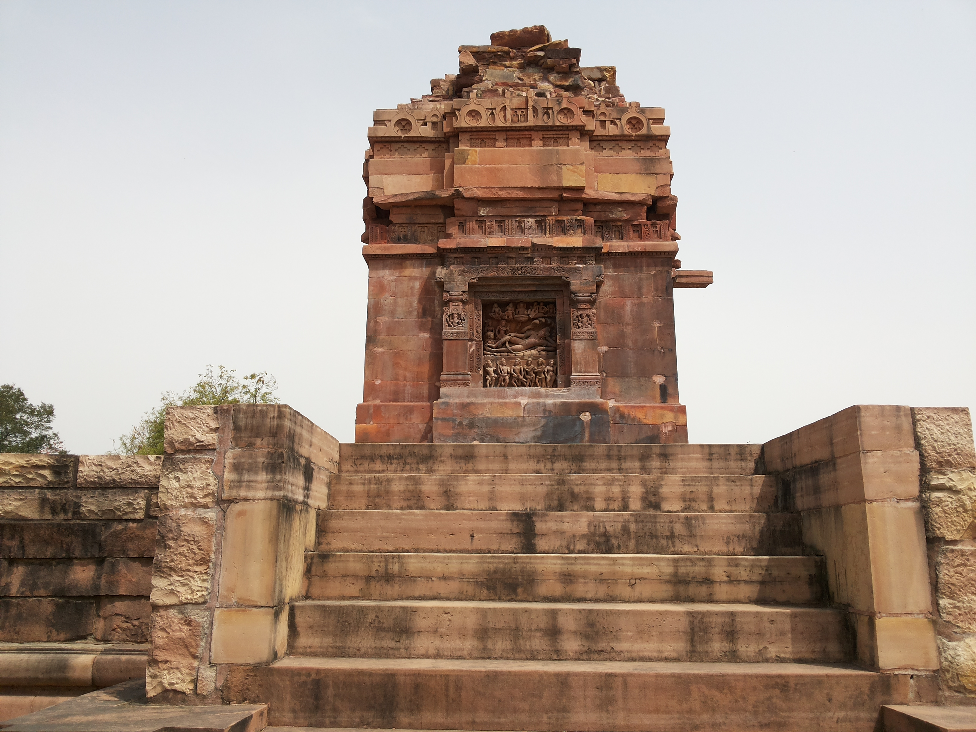 The image is showing the front side of the Dashavatara Temple in Deogarh, Lalitpur